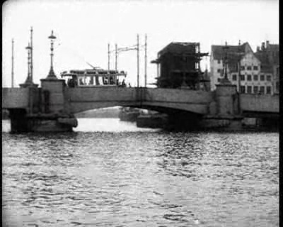 Screenshot from the Danish silent film En Tur gennem Københavns Kanaler (A Trip through the Canals of Copenhagen) from 1908. Inderhavnen with tram on Knippelsbro. Behind the bridge a new bridge is being build.